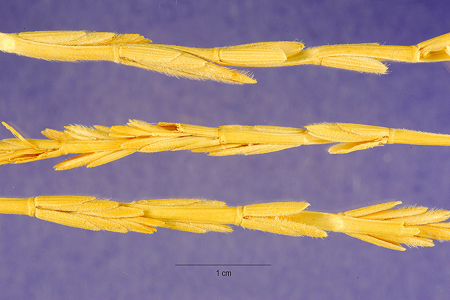 Seeds of Thinopyrum intermedium